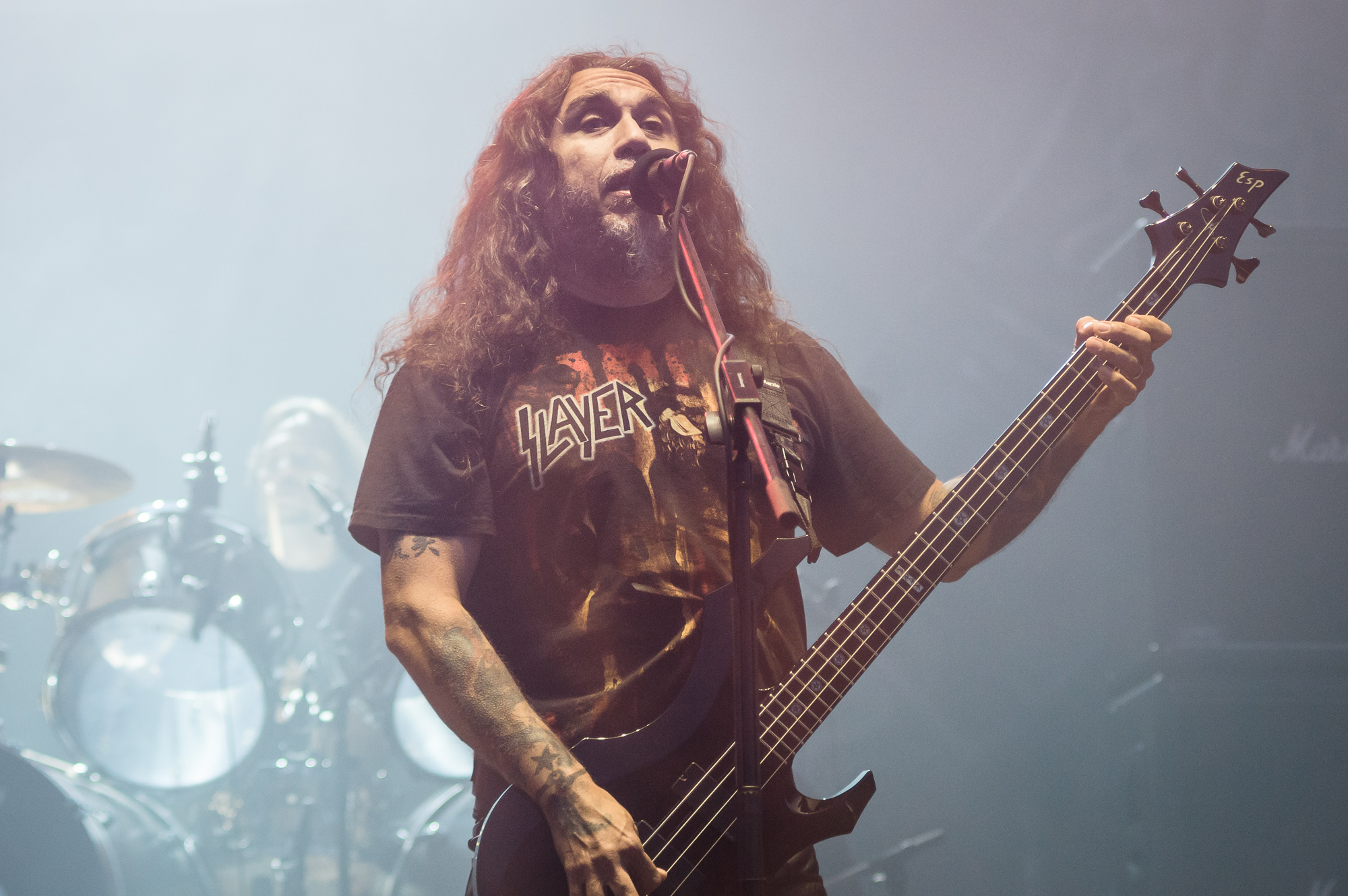 Tom Araya – a lead singer and bass player of Slayer. Ursynalia 2012 Festival, Warsaw, Poland.